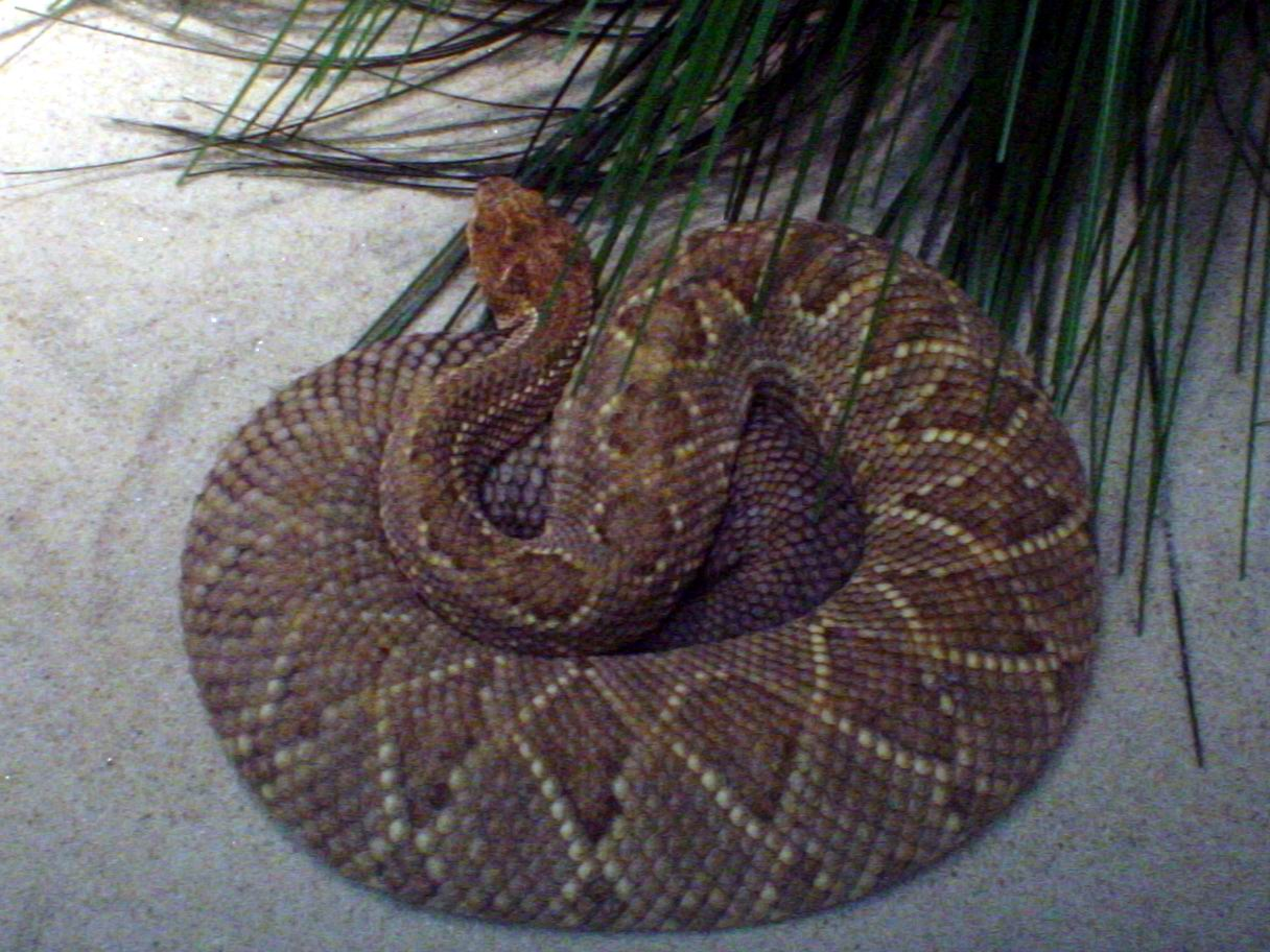 Aruba Island Rattlesnake (Crotalus (durissus) unicolor) at the Columbus Zoo and Aquarium.